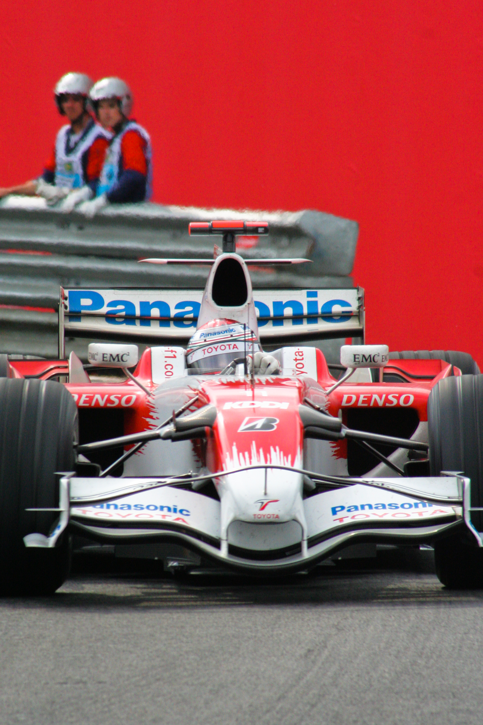 Trulli out of the pits